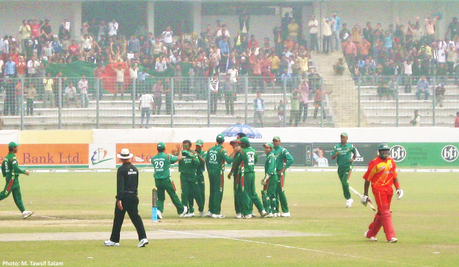 Bangladeshi players celebrate their penetration of opening Zimbabwean partnership, at Sher-e-Bangla Cricket Stadium, Dhaka.